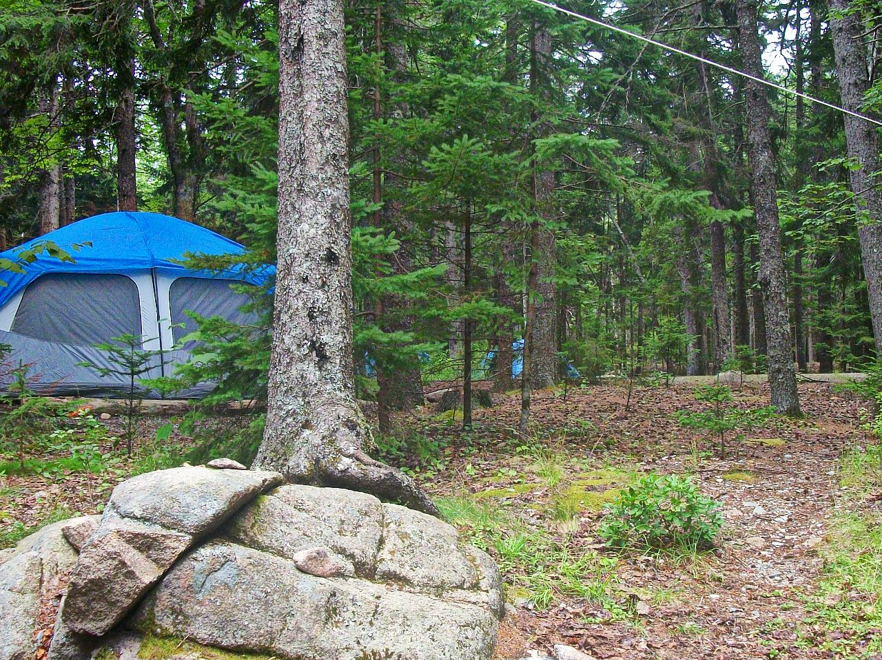 Tent site at Blackwoods campground in Acadia National Park